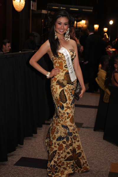 Miss Indonesia 2008 Sandra Angelia during Miss World 08